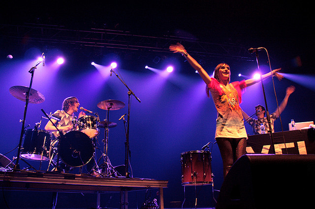 Yelle on December 18, 2008.